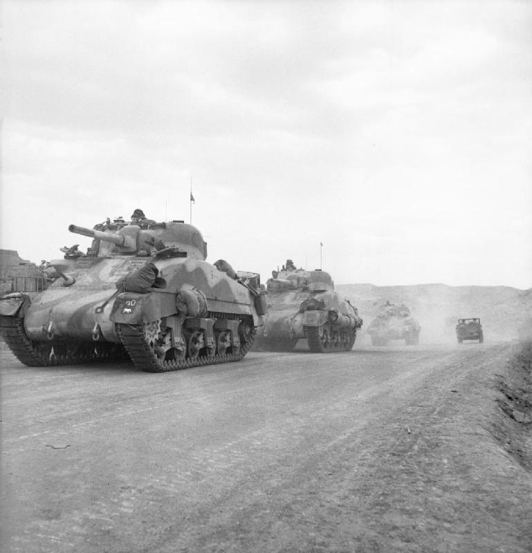 Sherman tanks of the Queen's Bays (2nd Dragoon Guards) advance through the Gabes Gap, Tunisia, 7 April 1943. Sherman tanks of the Queen's Bays (2nd Dragoon Guards) advance through the Gabes Gap, 7 April 1943.